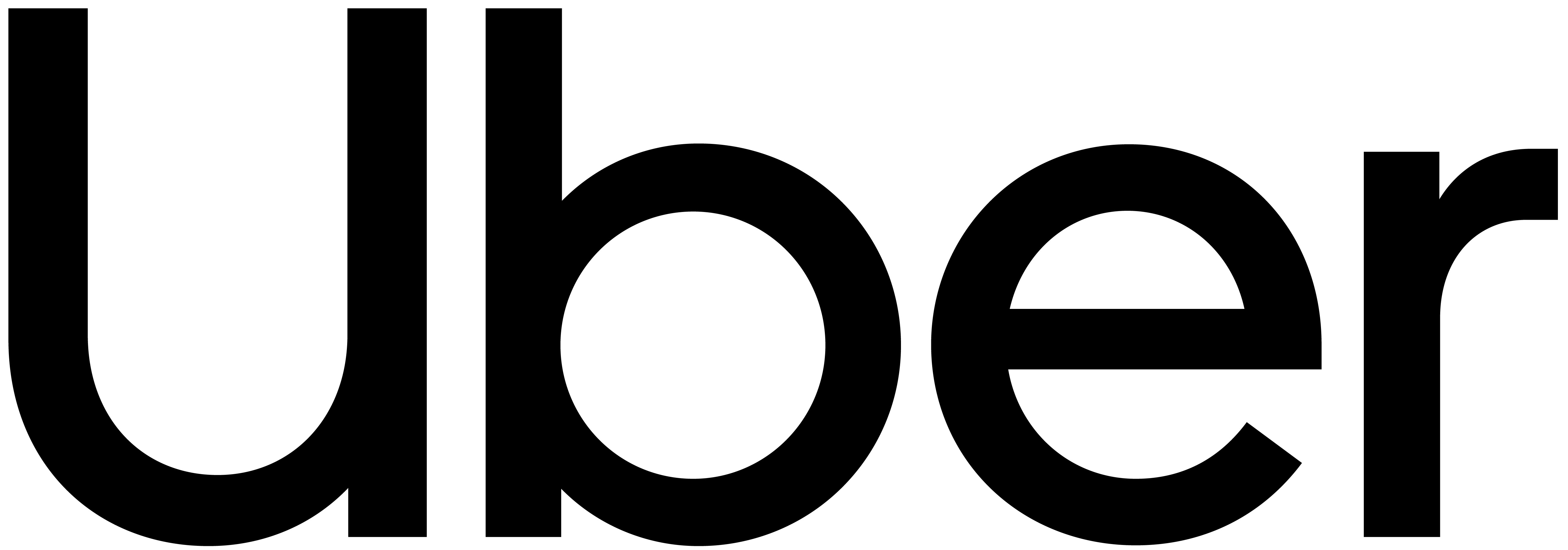 Uber logo